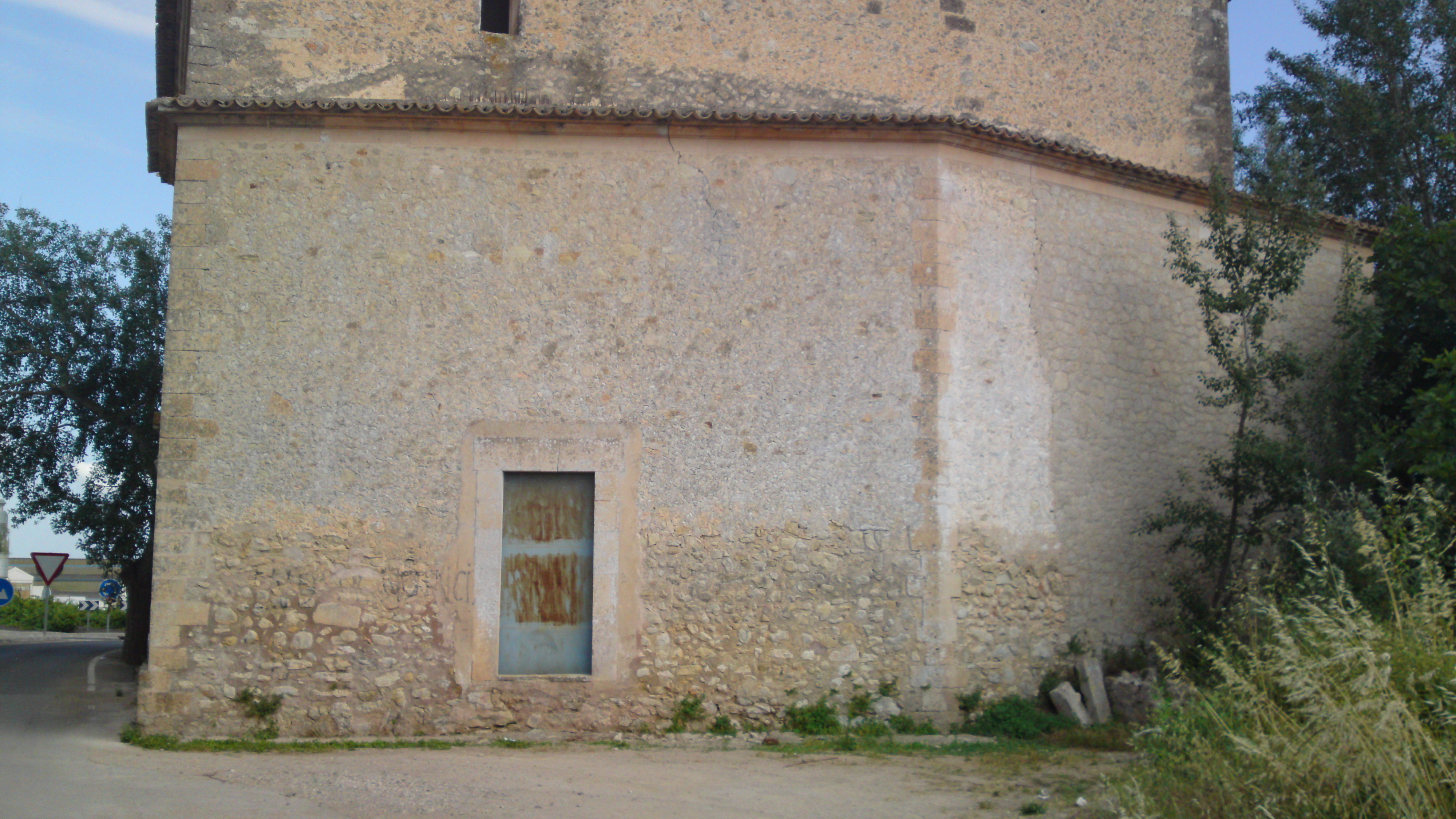 The rear facade of the Oratory Santa Creu (Holy Cross). During the Spanish Civil War, shot about supporters of the republican movement in this area.